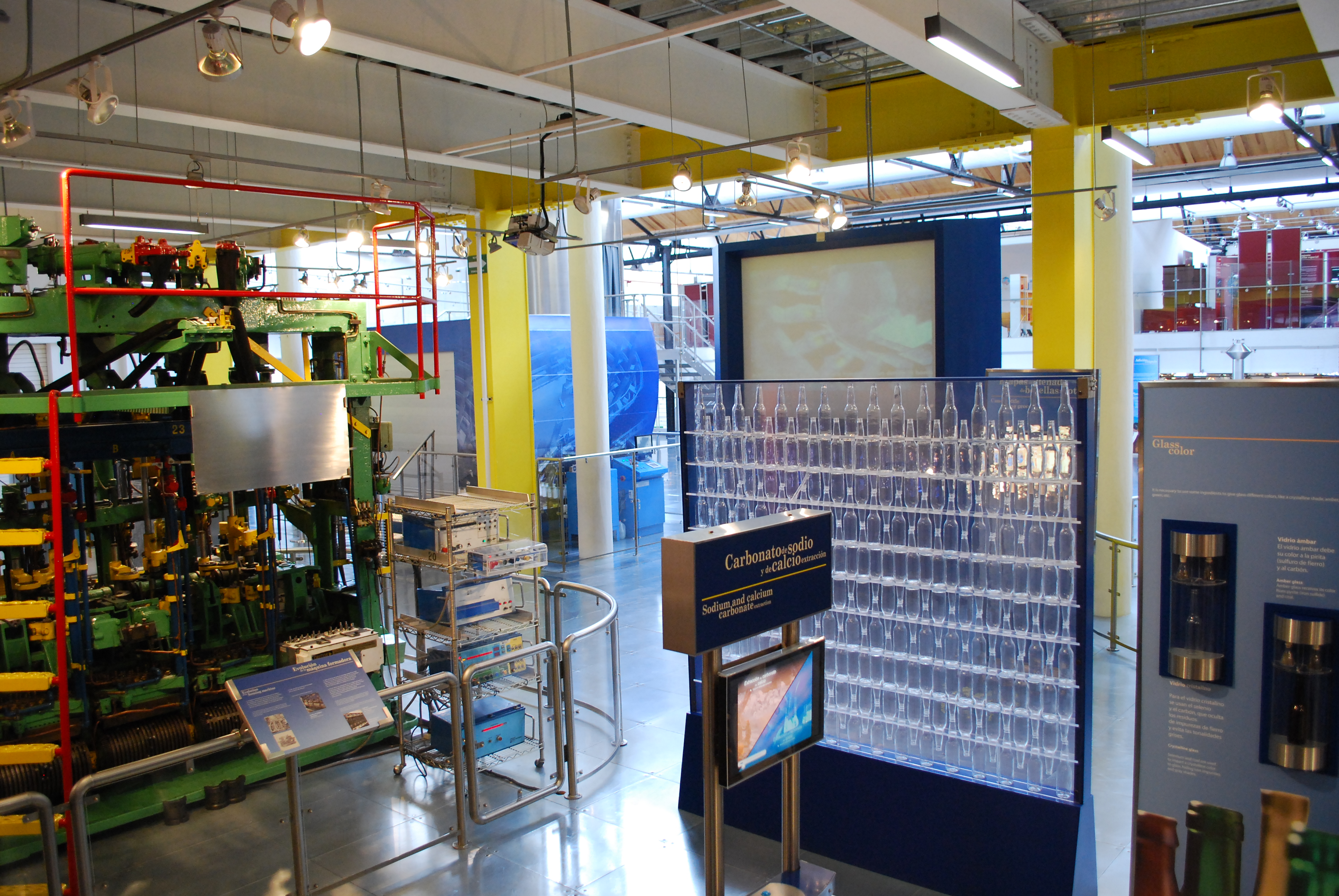 View of part of the beer-making display at the Museo Modelo de Ciencias y Industria in Toluca, Mexico State, Mexico